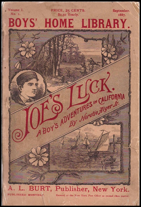 Cover of the September 1887 first paperback edition of Joe's Luck, by Horatio Alger